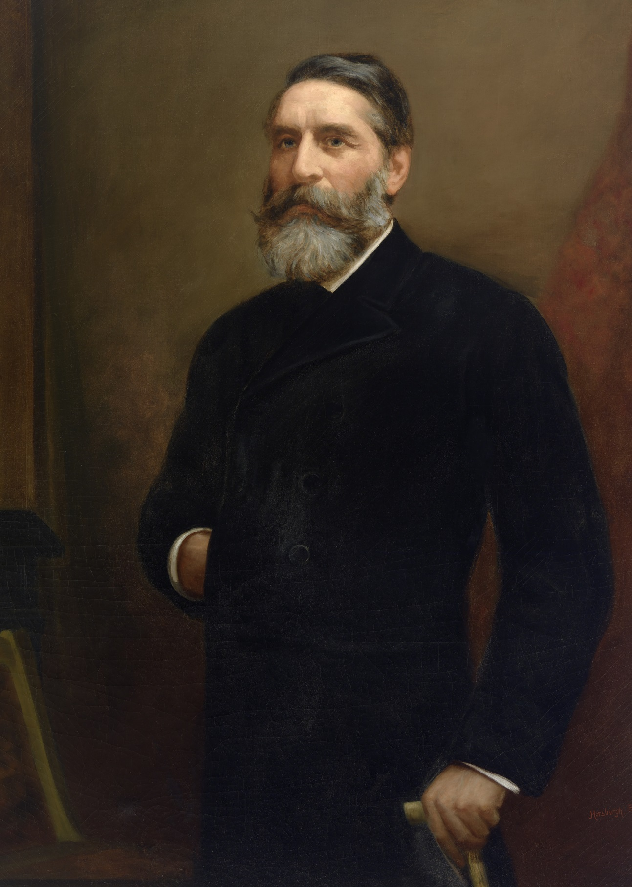 Picture of the Portrait of James Paris Lee painted 1889